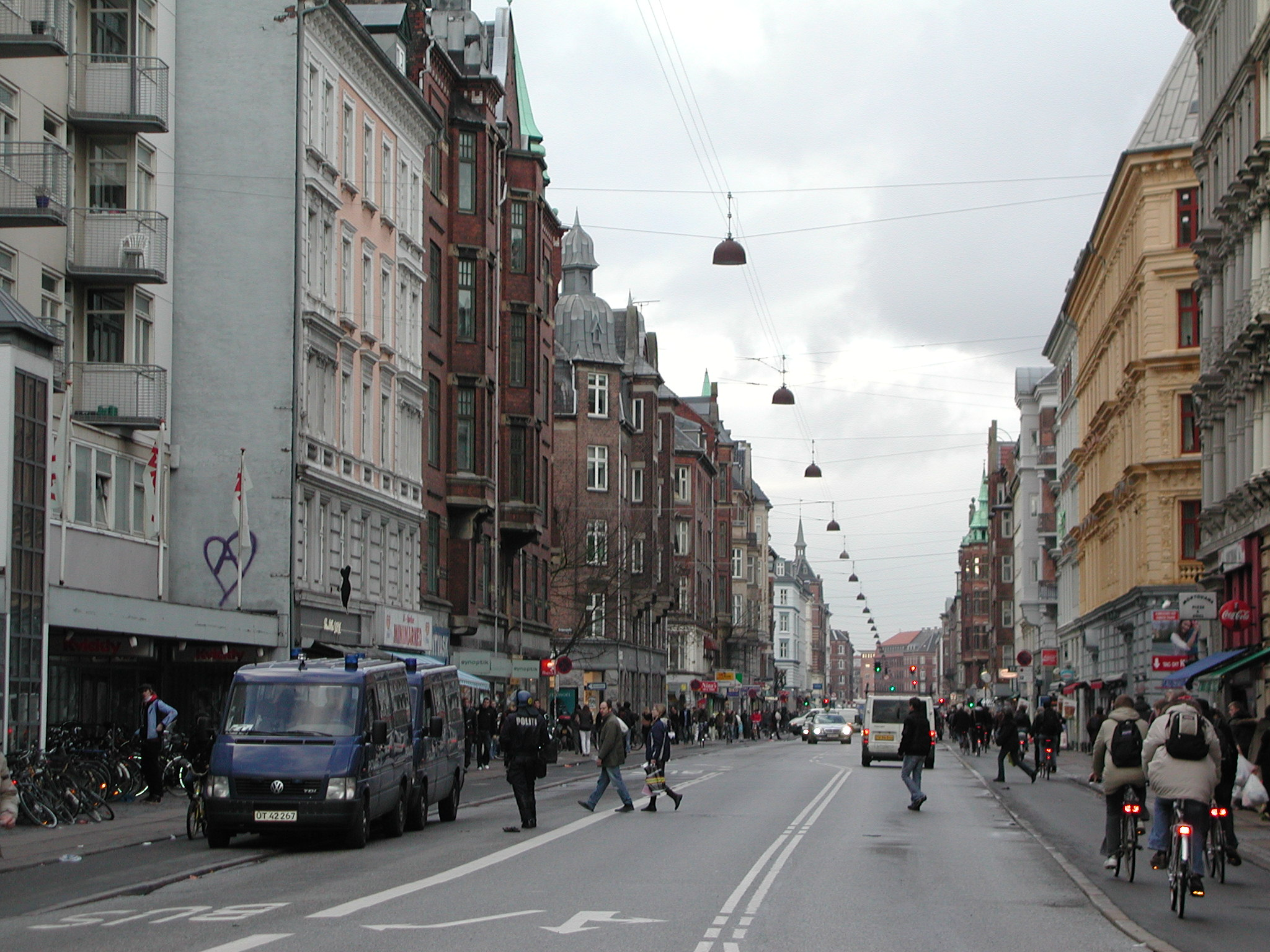 Street of Nørrebrogade in Copenhagen March 1 2007.